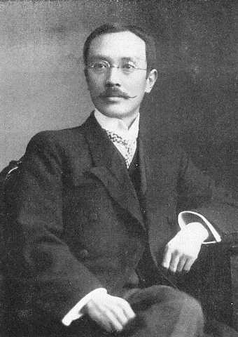 Heitaro Fujita